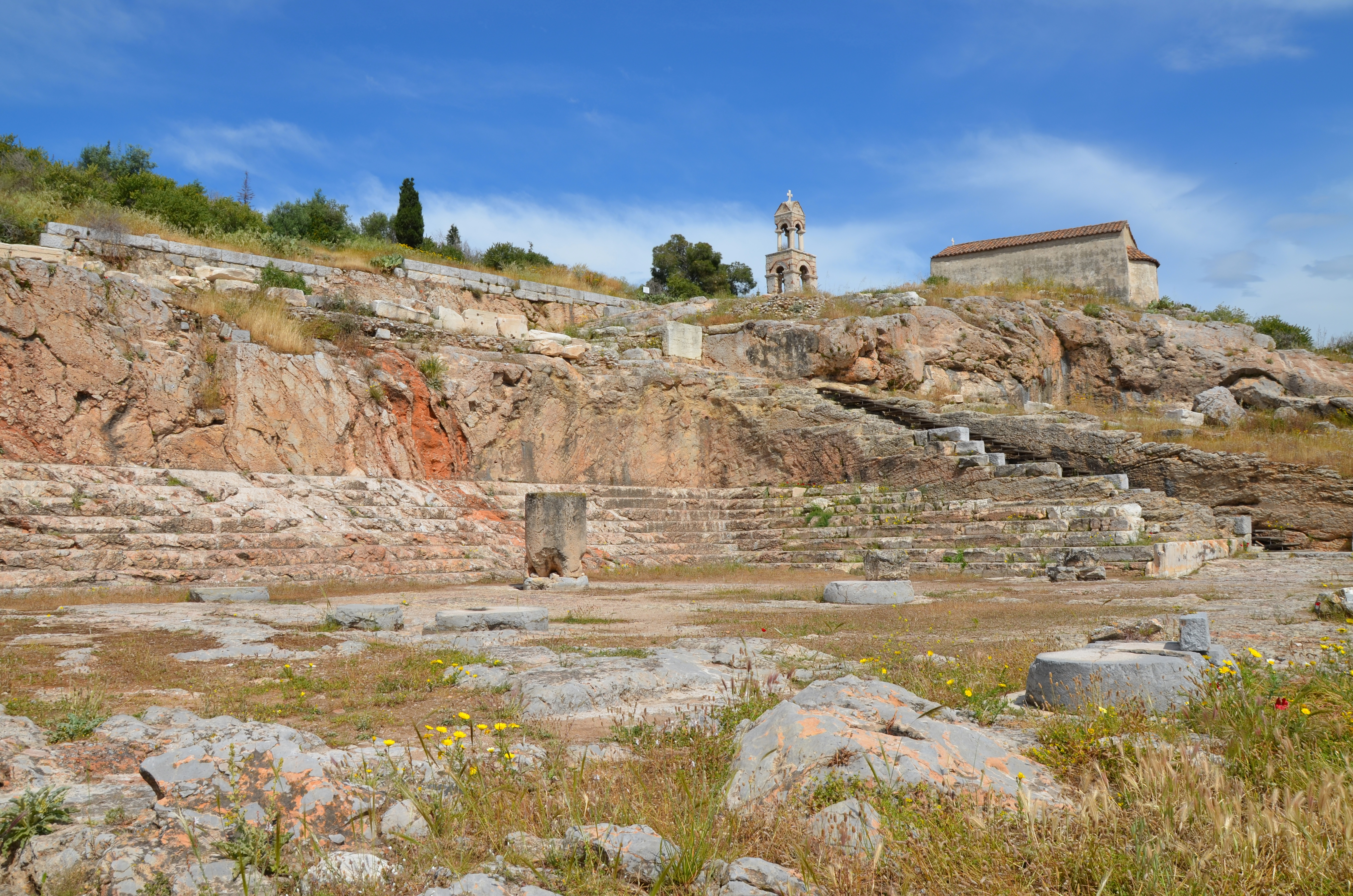 Overall view of the Telesterion, the "place for initiation", Eleusis